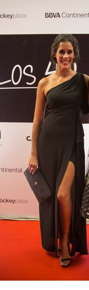 Gianella Neyra's 'A los 40' dress. At the Lima Premiere of A los 40